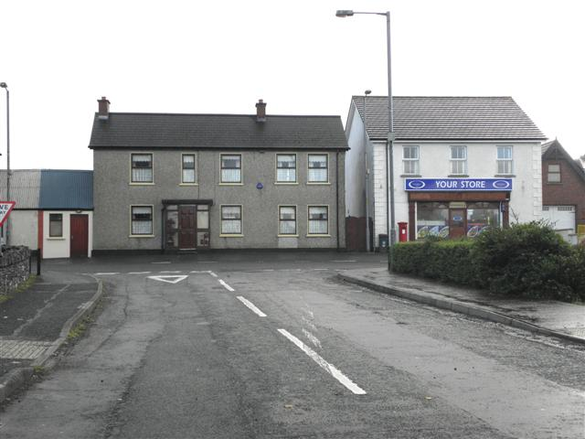 Loughmacrory, County Tyrone More at Loughmacrory, it is described as a village, but the population was less than 240 in the 2001 census and is one of the few settlements that does not have a pub.